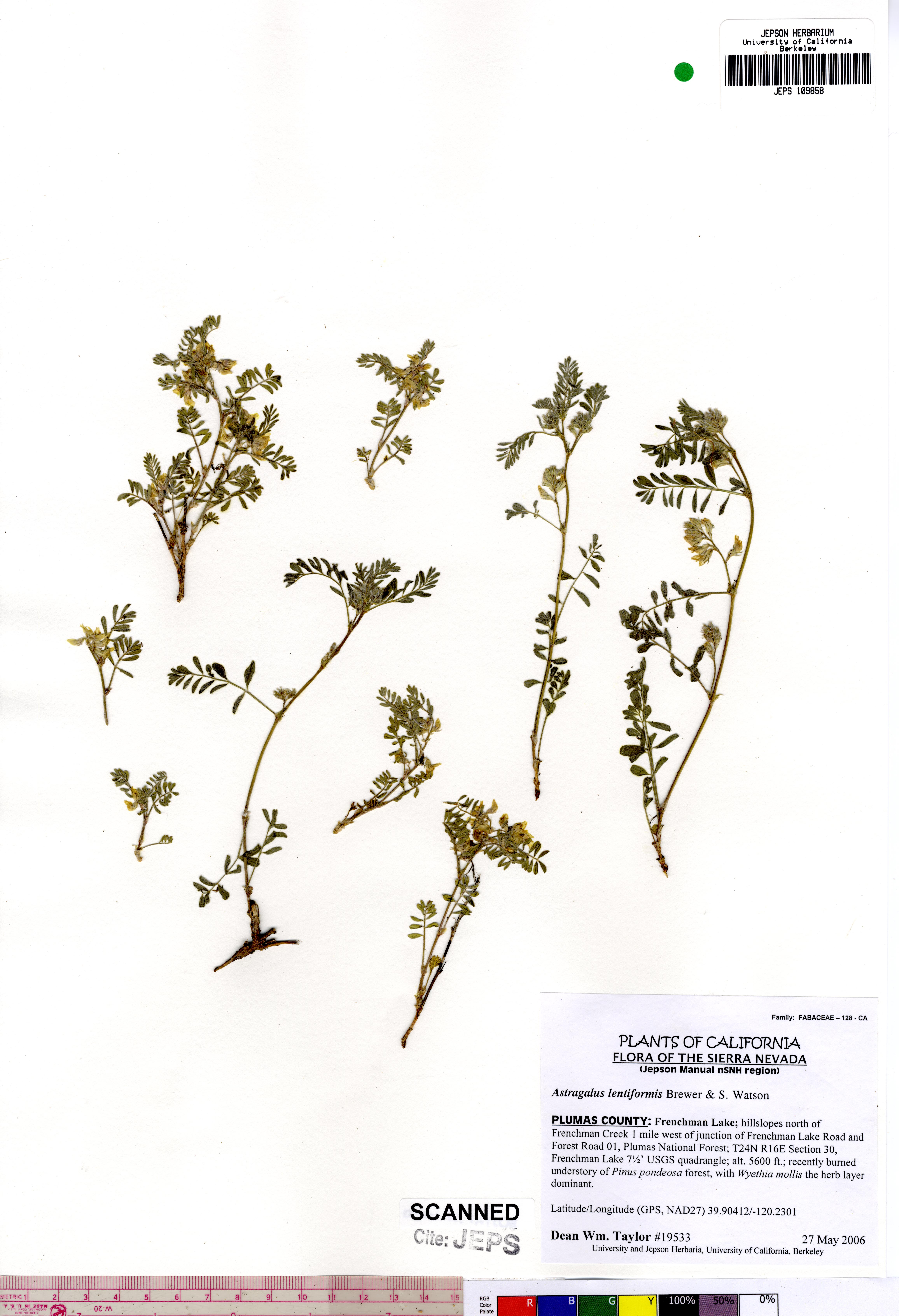 Astragalus lentiformis JEPS109858